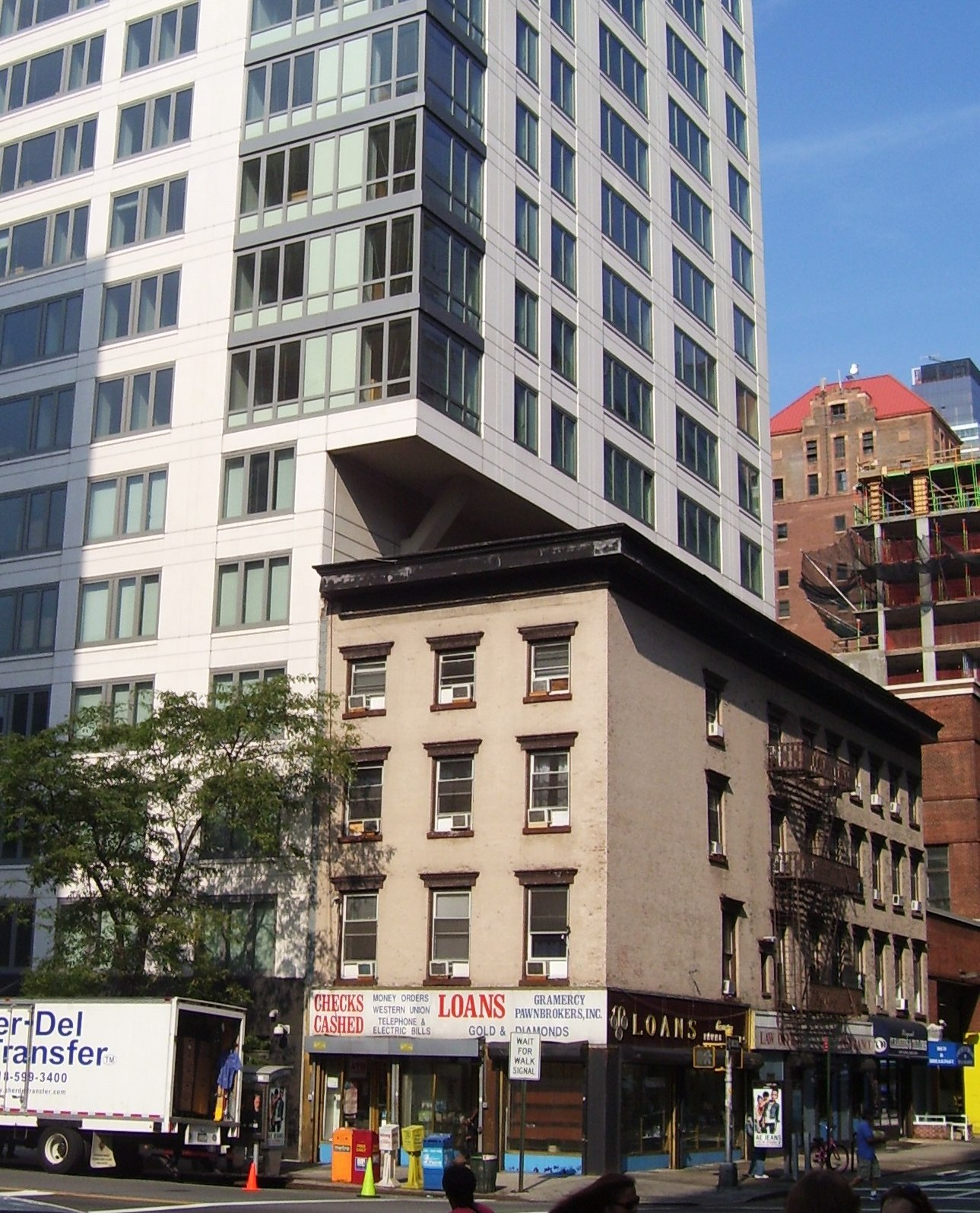 An example of air rights: the newly constructed high-rise building at Third Avenue and 23rd Street extends over the four-story building at 318 Third Avenue at 24th Street.